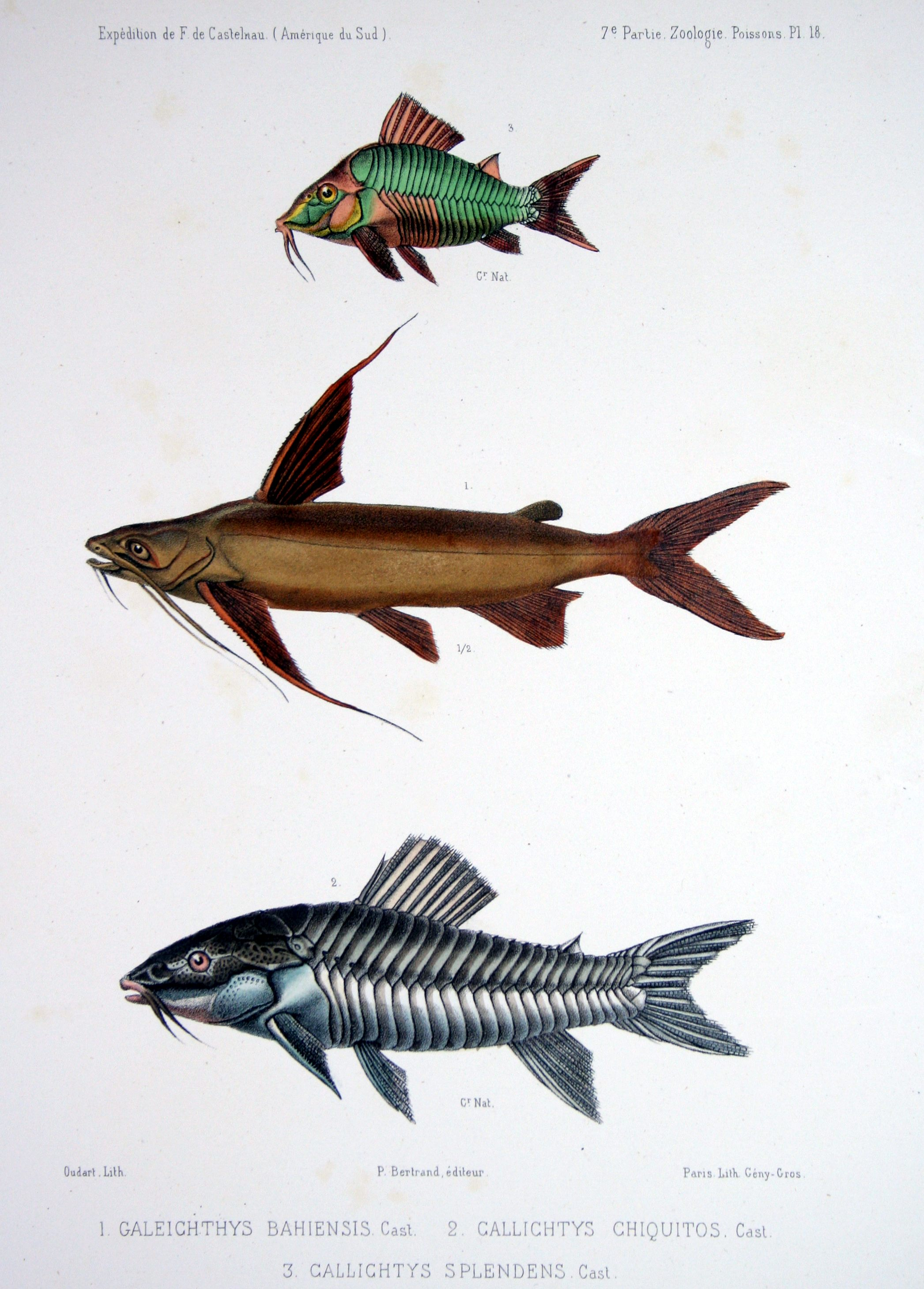 From top to bottom: Callichthys splendens Castelnau, 1855 = Emerald catfish, Brochis splendens (Castelnau, 1855) Galeichthys bahiensis Castelnau, 1855 = Gafftopsail sea catfish, Bagre marinus (Mitchill, 1815) Callichthys chiquitos Castelnau, 1855 = Atipa, Hoplosternum littorale (Hancock, 1828)